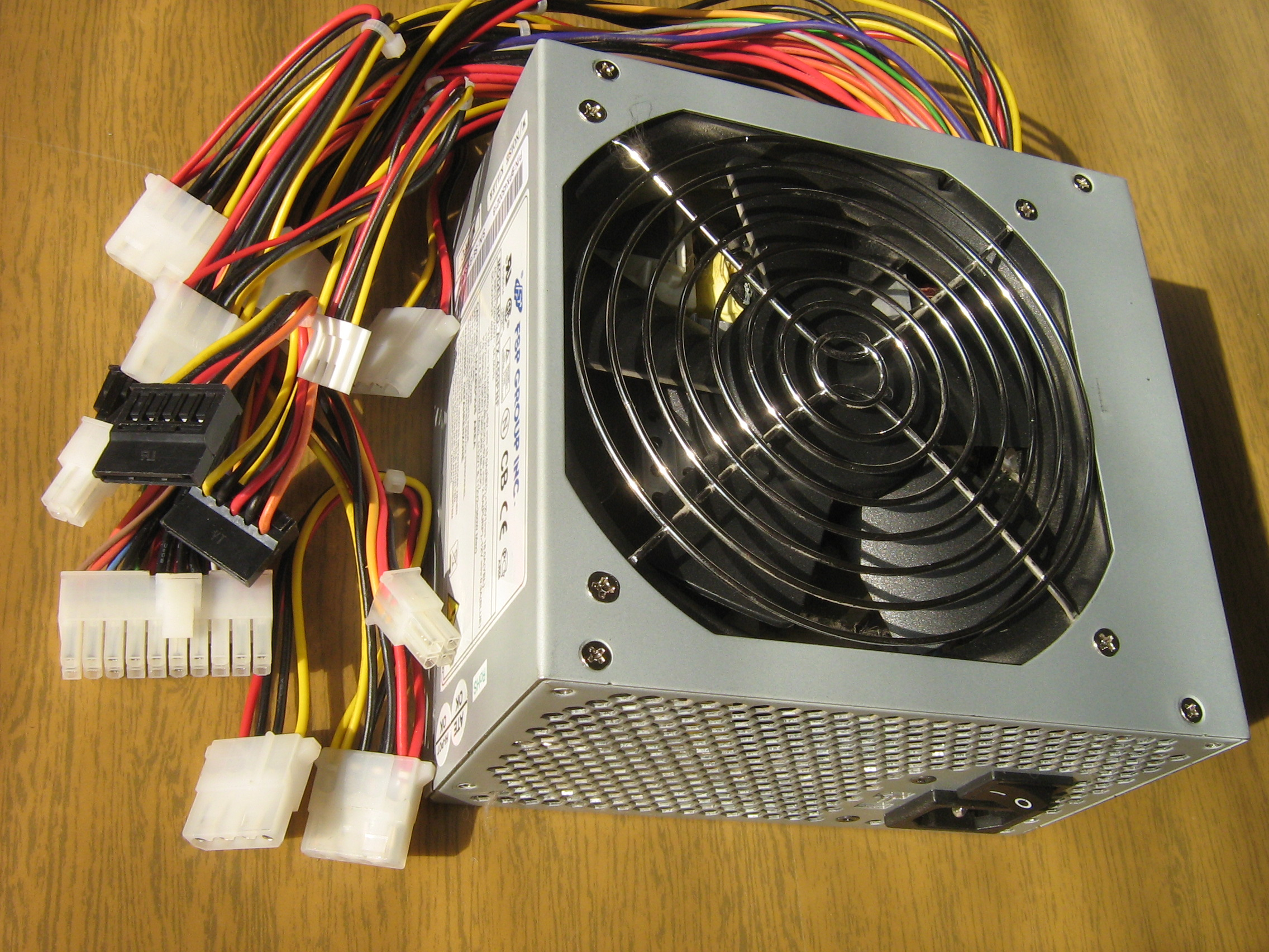 ATX FSP ATX-450PNF. This is a Power Supply Unit, or PSU, for an ATX computer.Note the fan, power switch and power connector.